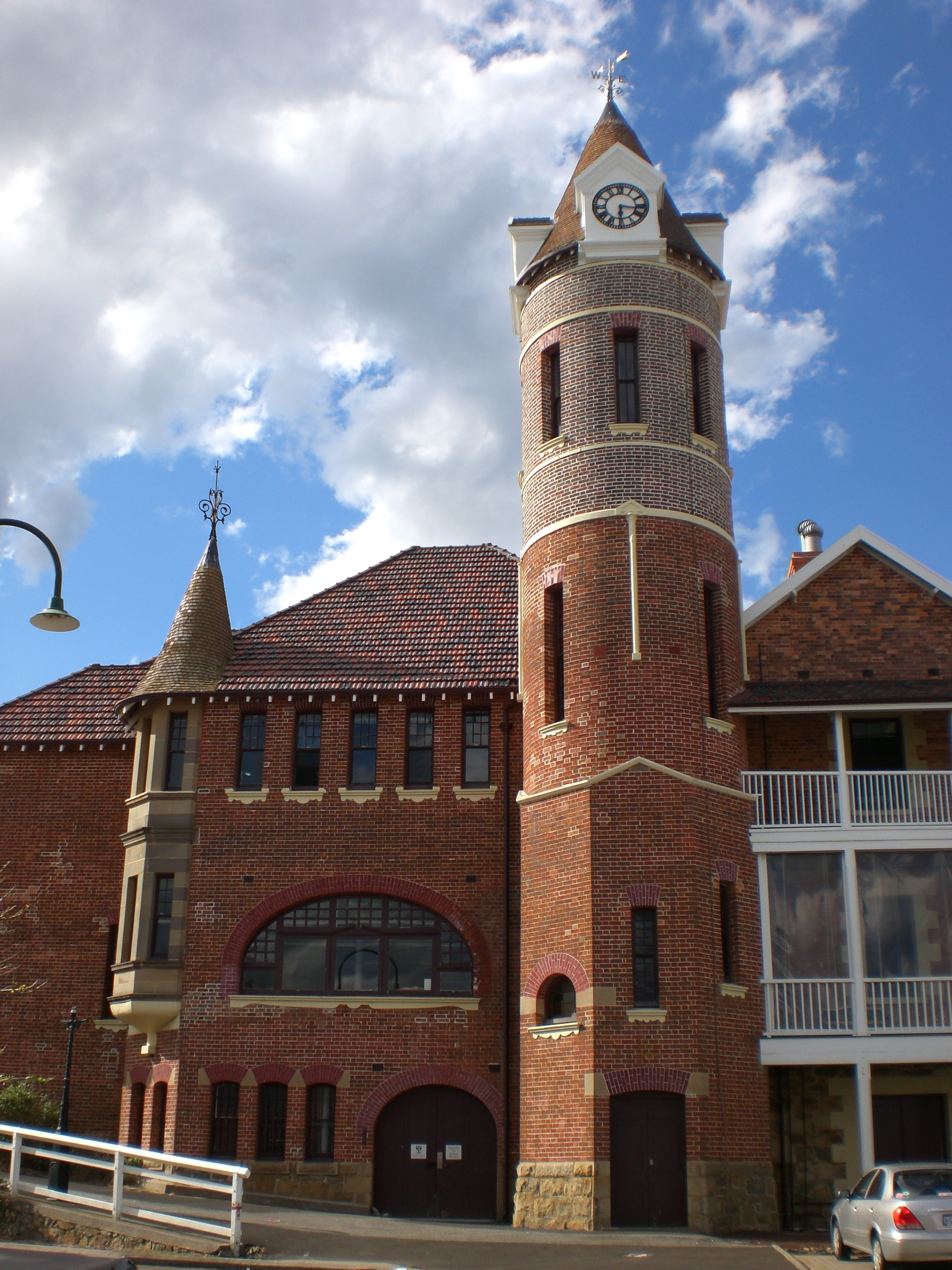 The former Post and Customs office in Albany, Western Australia, known as the Penny Post. The site overlooks the Harbour and was a landmark since its construction in the late nineteenth century. The design is by George Temple-Poole.